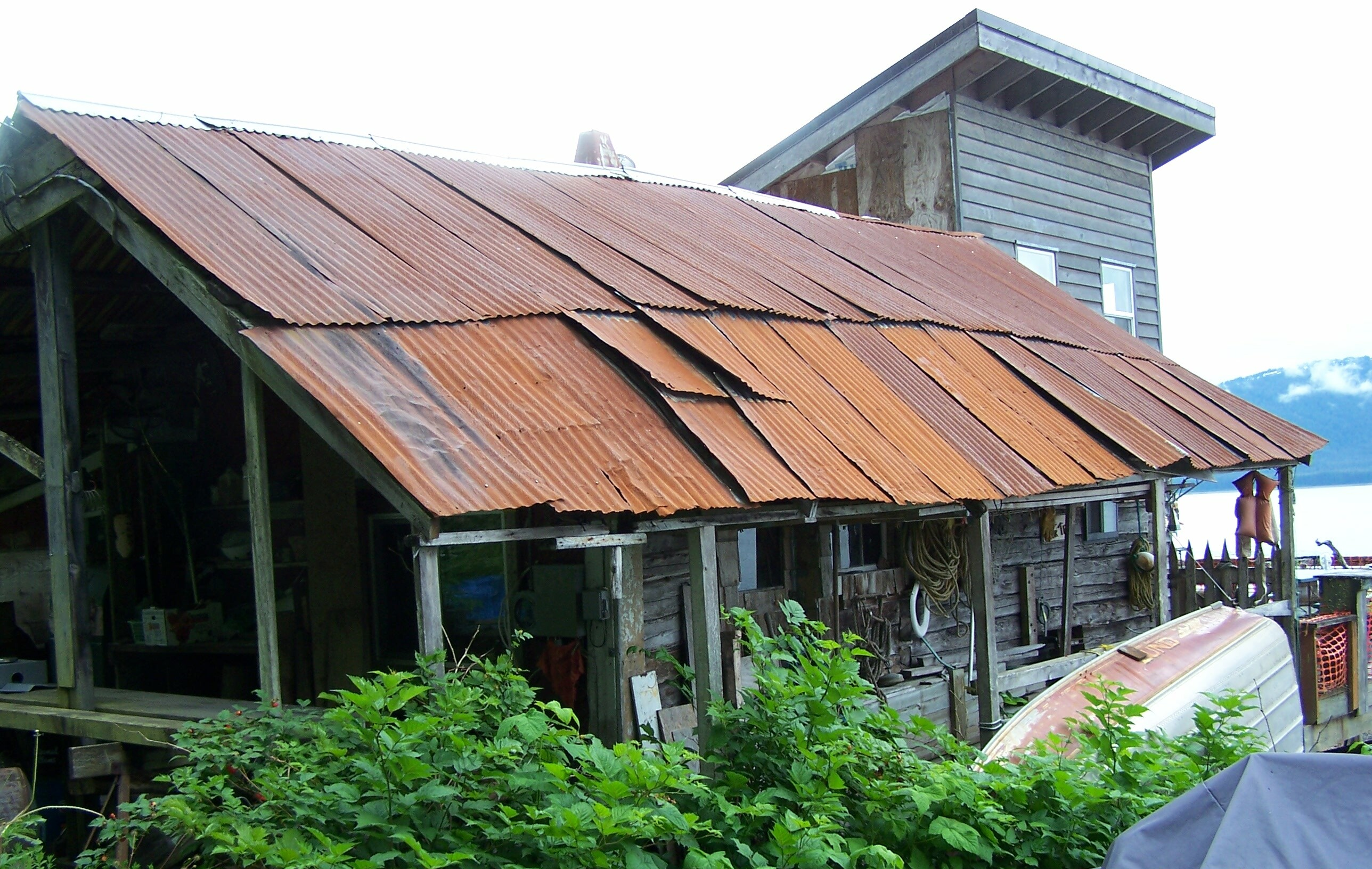 Tenekee Springs waterfront building, rusty corrugated iron roof with some cornewrs loose.